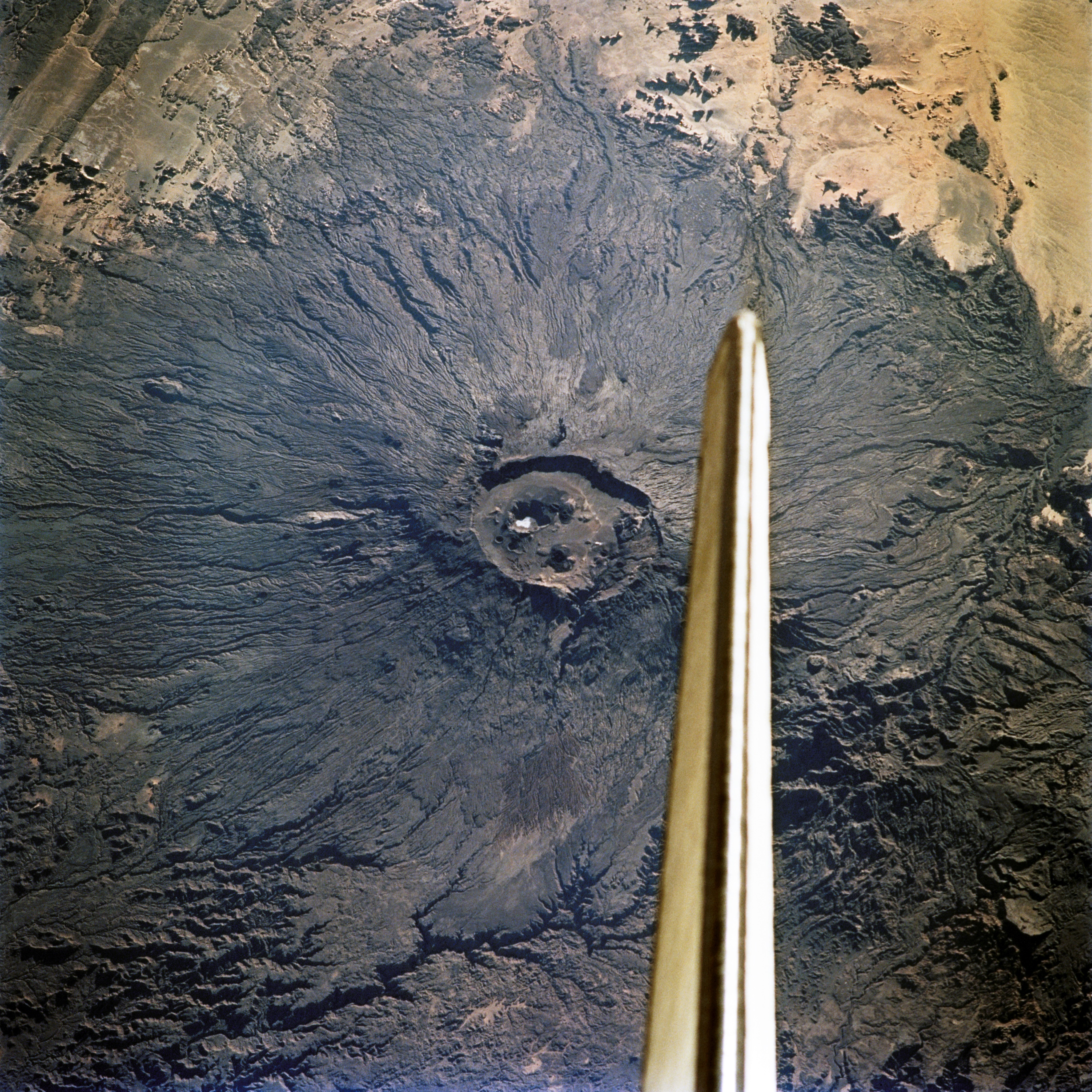 The vertical stabilizer of the Space Shuttle Endeavour almost appears to point out Emi Koussi volcanic crater in the Tibesti Mountains of Chad, in Saharan Africa. Emi Koussi is one of the prominent volcanoes within the Tibesti massif of north-central Africa. The dark, shield-shaped volcanic edifice has developed over a mantle hot spot that rises beneath this region of the African continent.